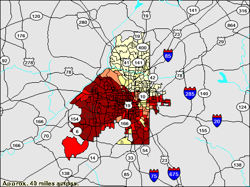 Dark red indicates that the area is over 90% African American. White indicates almost no presence of African Americans. This image is a self-generated thematic map from the U.S. Census Bureau's American Factfinder at by Wikipedia user Stevey7788.